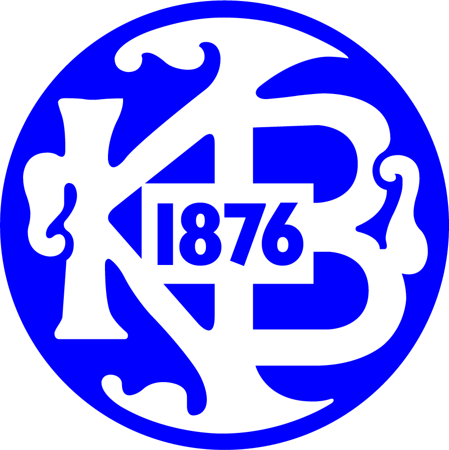 Logo of Kjøbenhavns Boldklub, designed by Thorvald Bindesbøll.